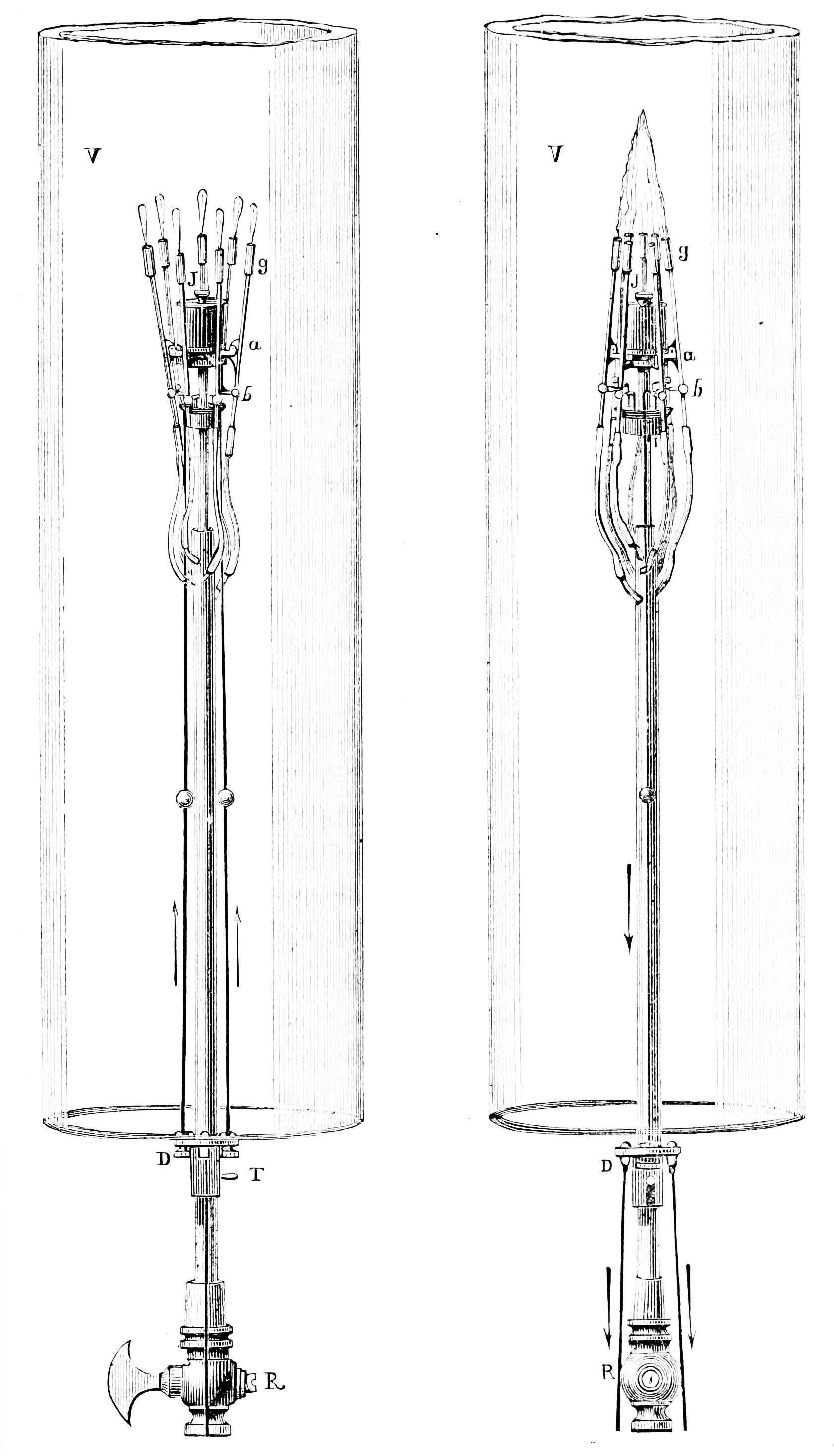 The pyrophone. "The mechanisms that allowed two flames to unite or diverge to produce a musical note." Wade, John (2016). The Ingenious Victorians: Weird and Wonderful Ideas from the Age of Innovation, p.136. Pen and Sword. ISBN 9781473849044.